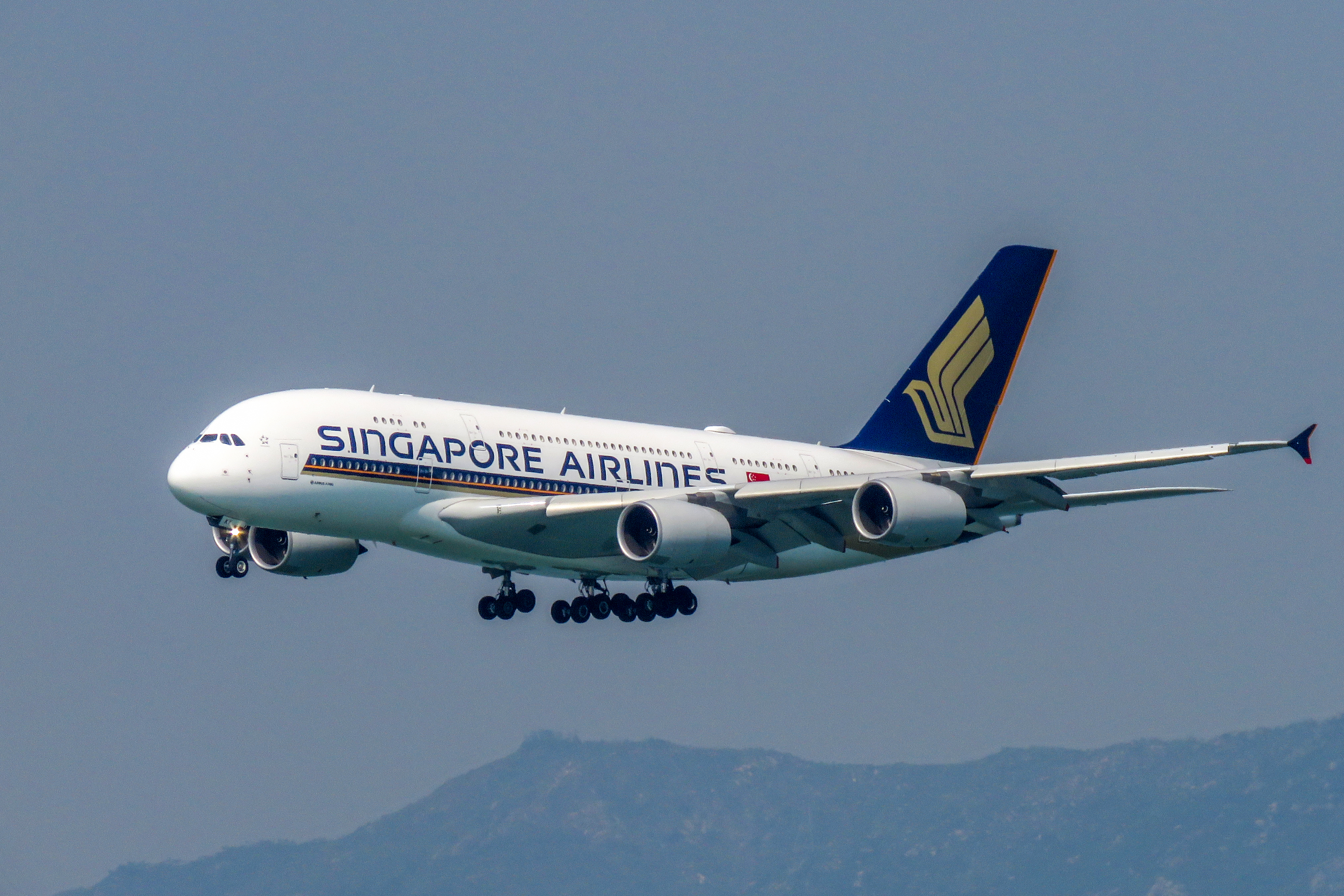 Singapore 856 from Singapore, in new configuration. It's even more difficult to spot an A380...